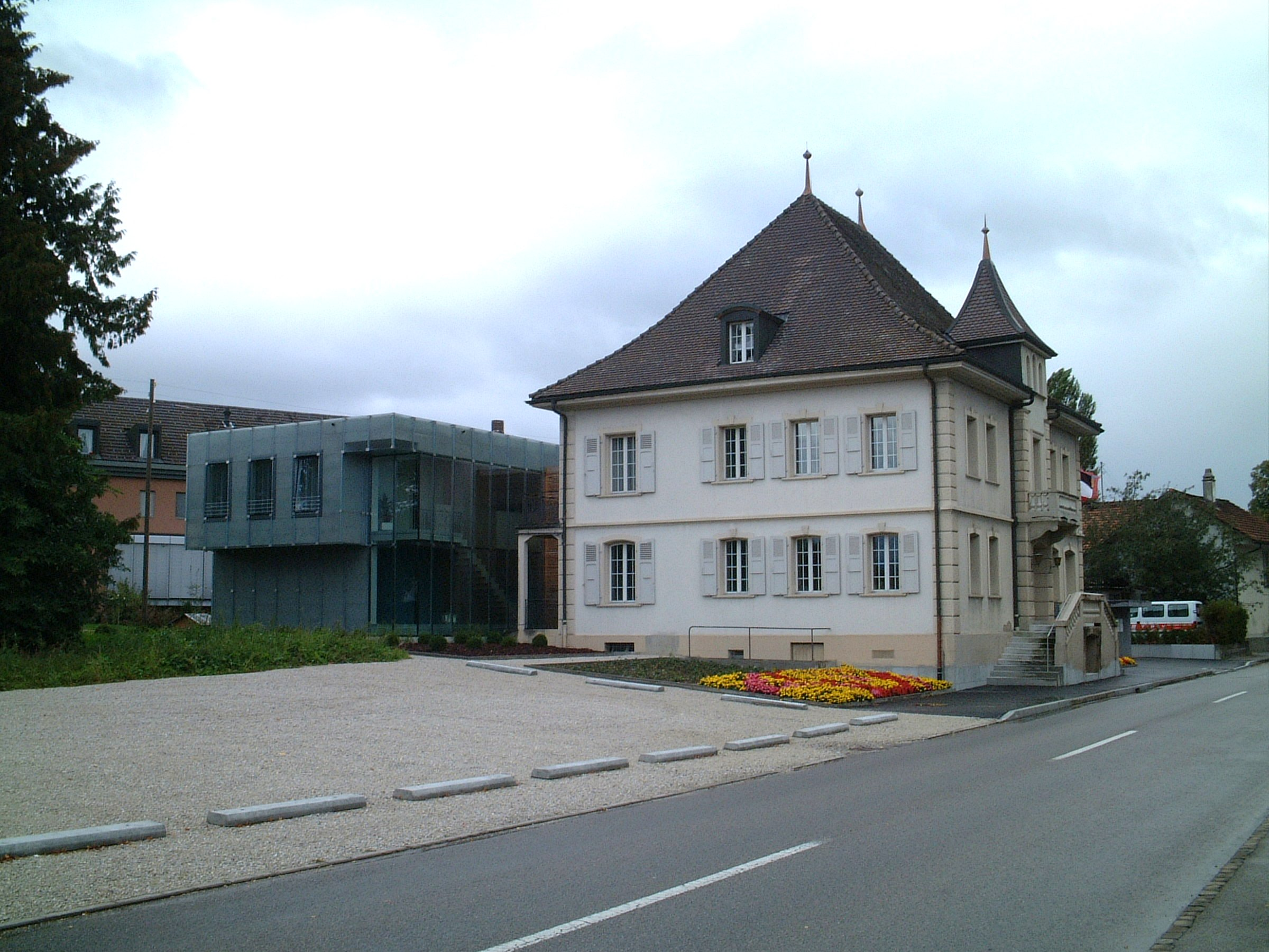 Schmitten, a village in the canton of Fribourg, Switzerland. Gemeindeverwaltung, altes und neues Gebäude.